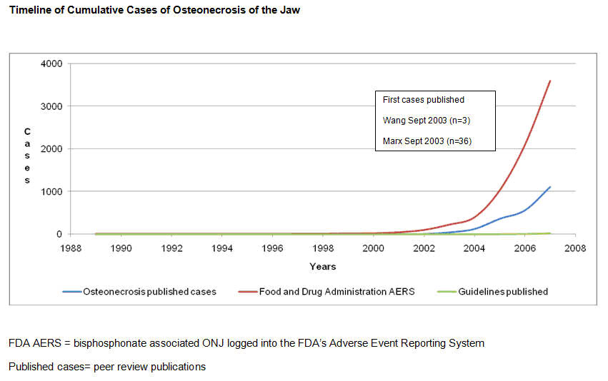 Graph showing rise of cases of Osteonecrosis of the Jaw from 1988 through 2007 as reported through the FDA and peer reviewed publications.